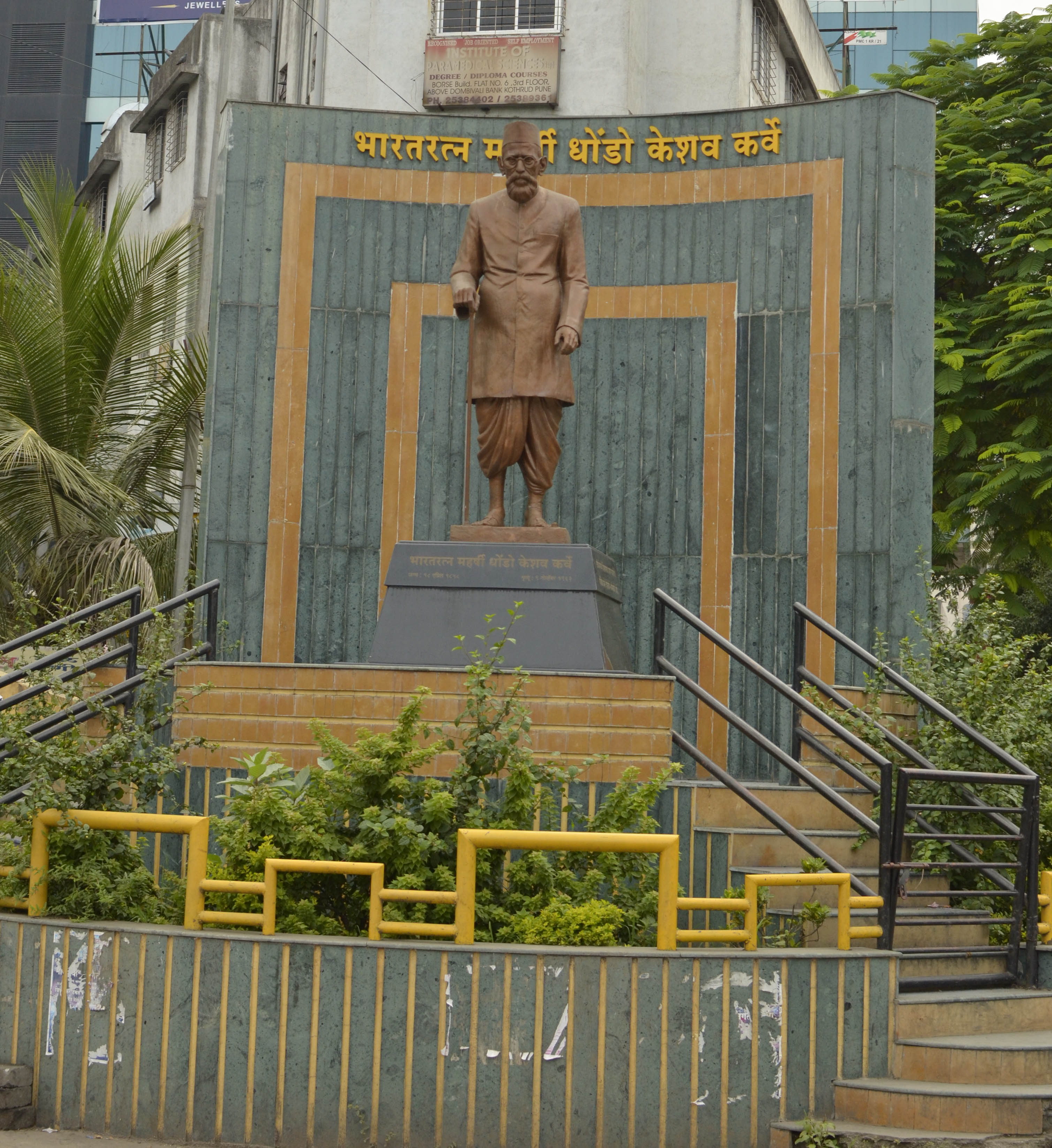 Dr. Dhondo Keshav Karve (Marathi: महर्षी डॉ. धोंडो केशव कर्वे) (18 April 1858 - 9 November 1962), popularly known as Maharishi Karve, was a social reformer in India in the field of women's welfare. In honour of Karve, Queen's Road in Mumbai (Bombay) was renamed to Maharishi Karve Road